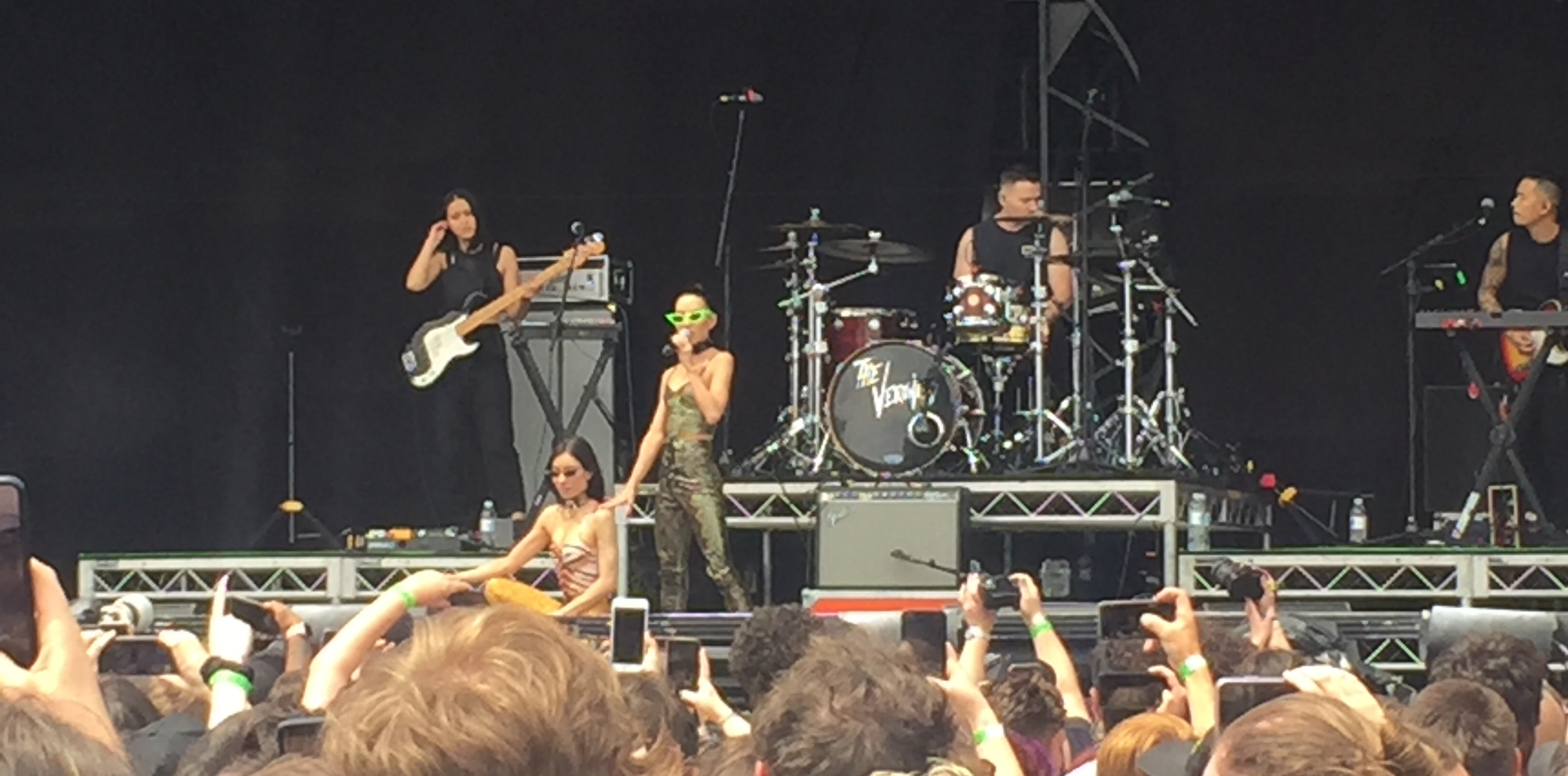 The Veronicas Slowly Slowly live at Good Things Festival in Melbourne, Australia (December 6, 2019). Photo was taken shortly before the legendary event 'Wall of death when The Veronica’s play Untouched at Good Things'.